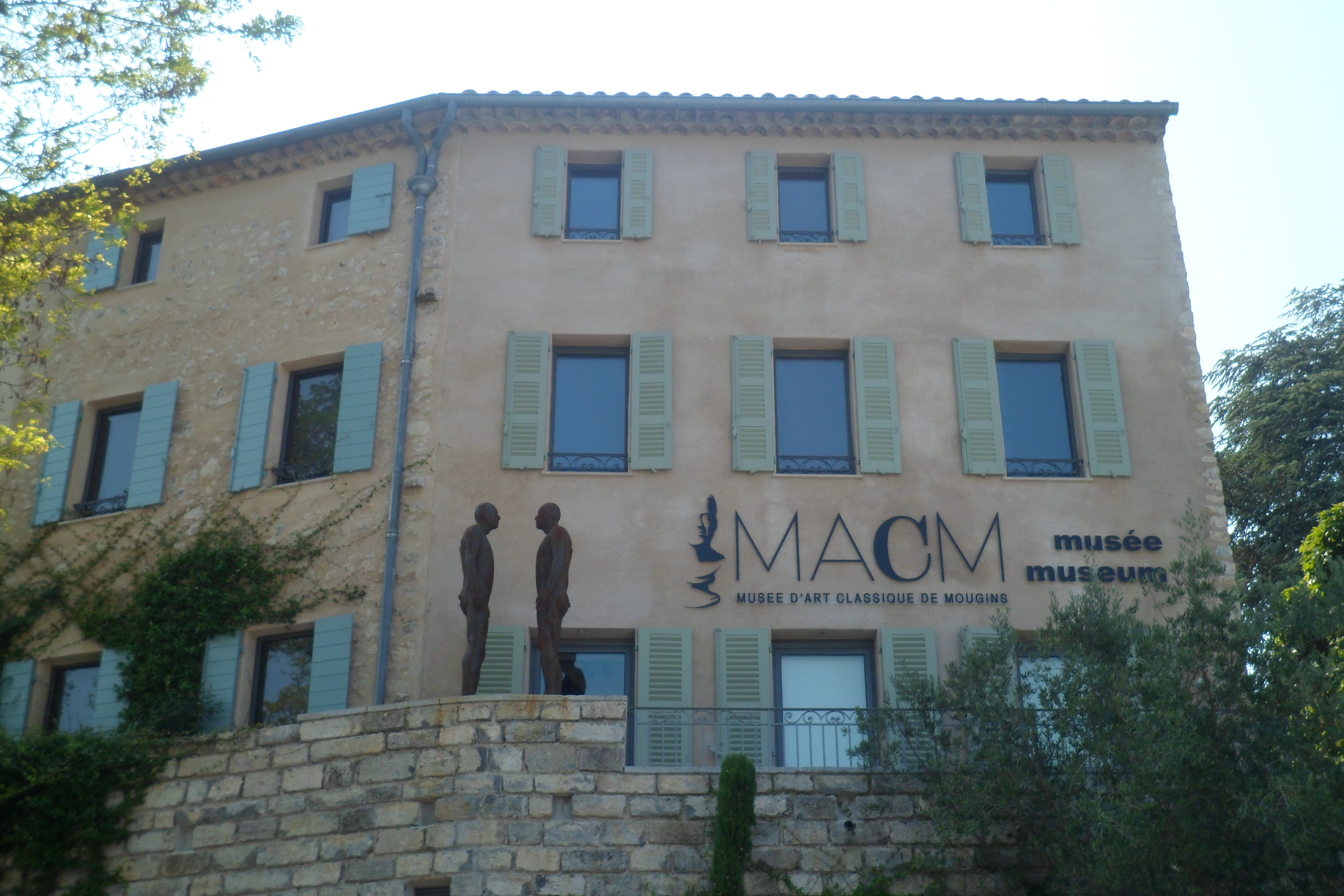 MACM's view from the entrance of the Village.